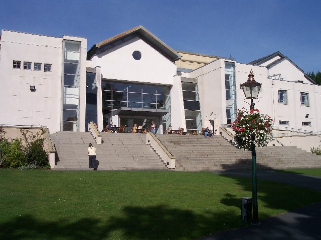 Malvern Theatres Complex. Viewed from the Priory Park. The renovated complex includes the cinema, Festival Theatre and the Forum Theatre. The latter used to be the Winter Gardens. George Bernard Shaw and Sir Edward Elgar introduced new works at the Malvern Festival.